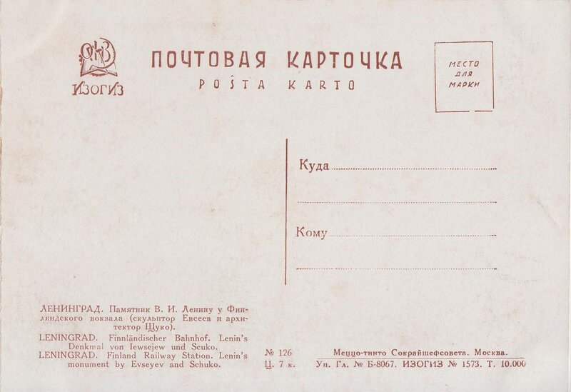 Backside of a postcard from Leningrad, published by Izogiz (which was founded 1930)